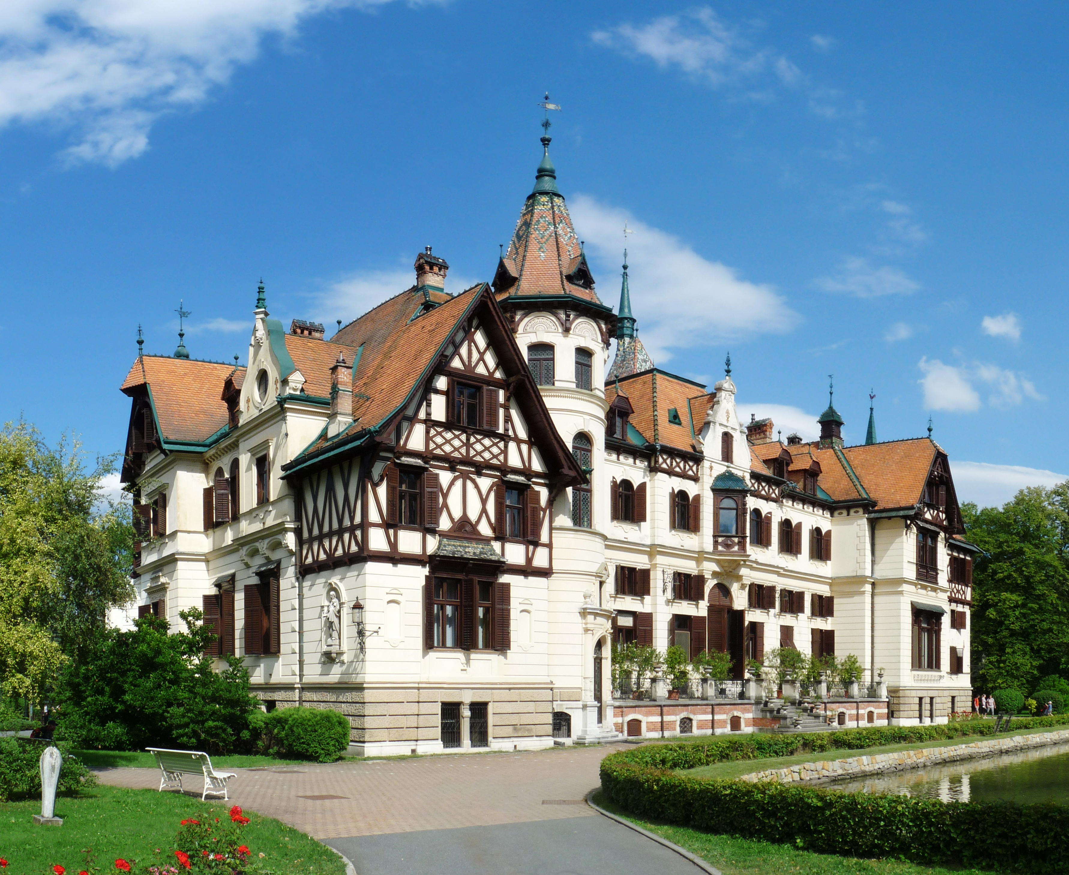 Zoo Zlín near the town of Zlín, Zlín Region, Czech Republic, Lešná Castle.